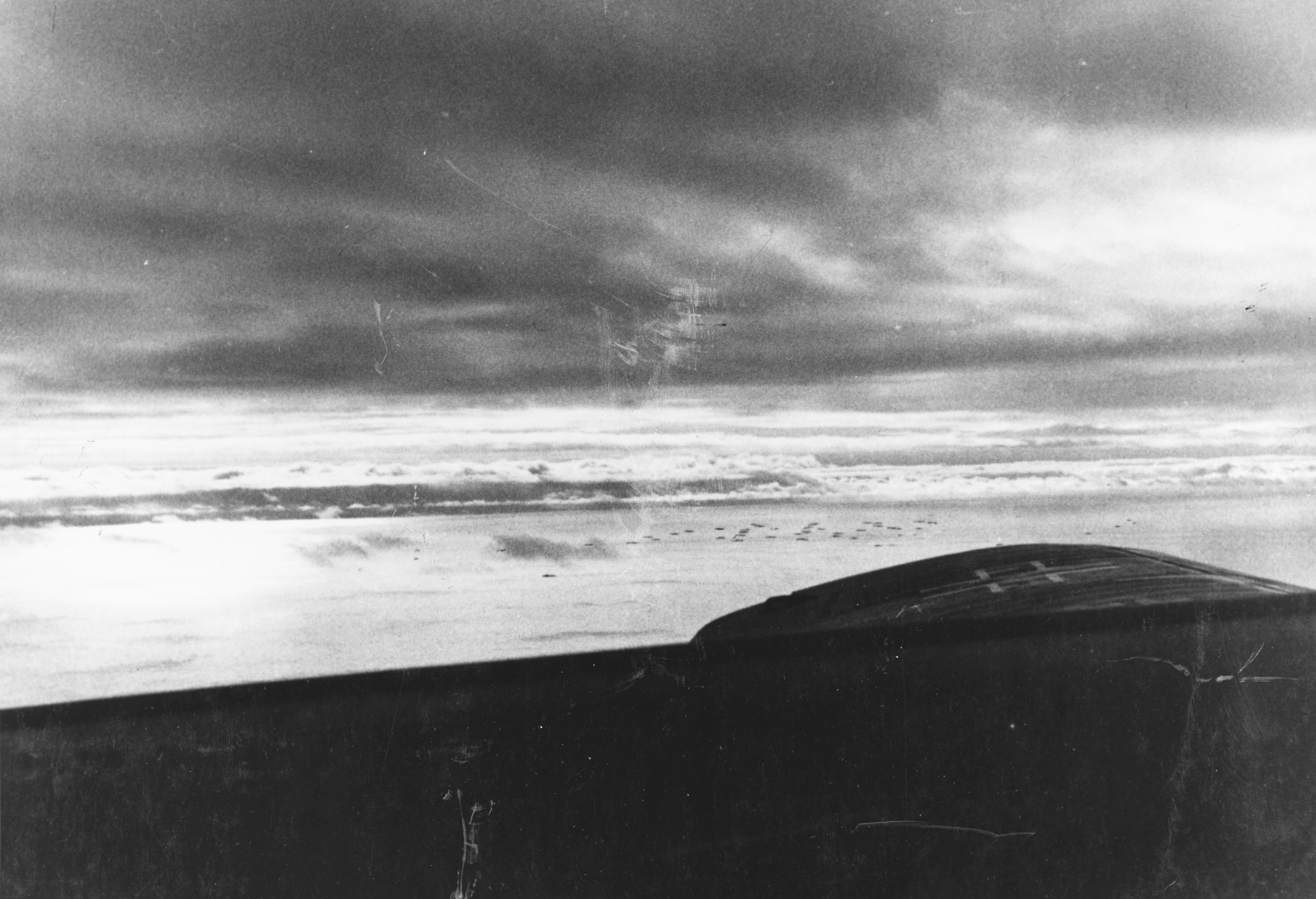 First sighting of the Convoy PQ-17 by a German Blohm & Voss BV 138 aerial reconnaissance plane, early in its voyage to Murmansk, on 1 July 1942.